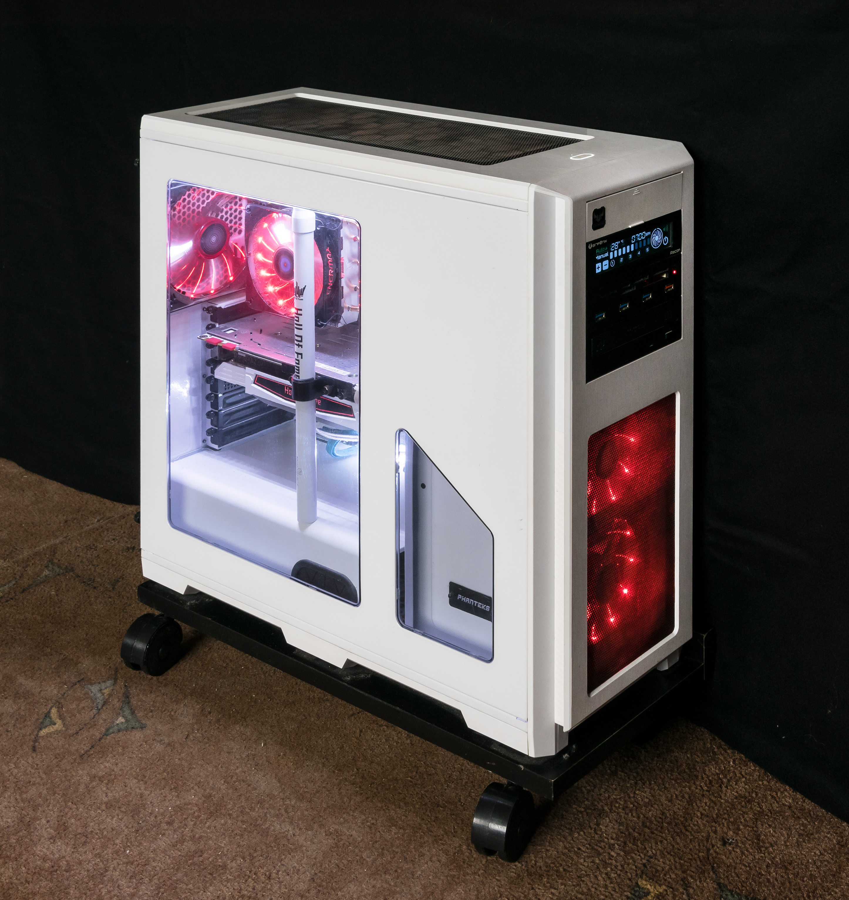 Personal computer in Phanteks Enthoo Pro case